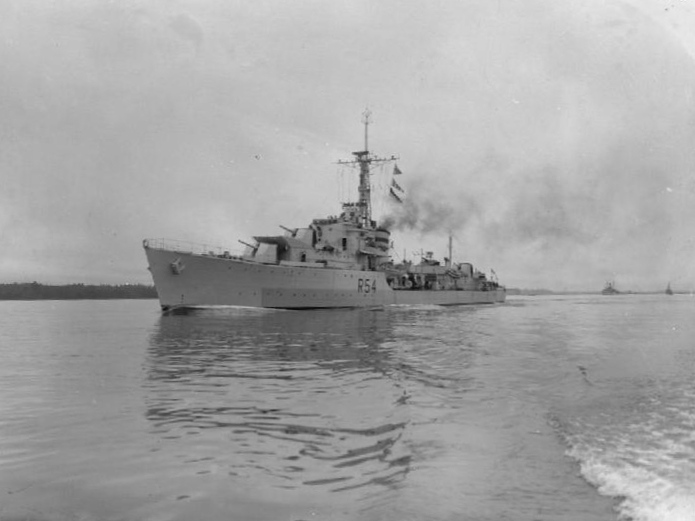 Photograoh of British Z class destroyer HMS Zodiac.